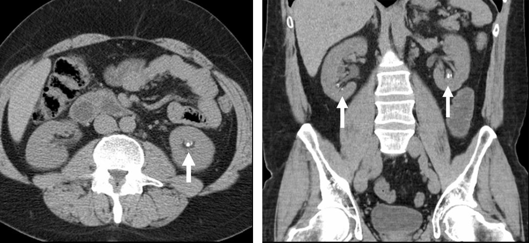 For context, see Computed tomography of the abdomen and pelvis.